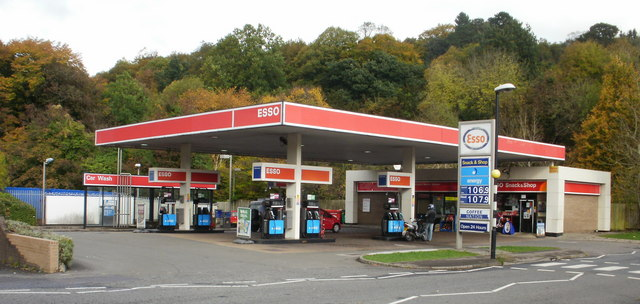 Esso, Usk Road, Pontymoel Directly behind the premises is the Afon Lwyd river, which is this area marks the boundary of the woods seen in the background.